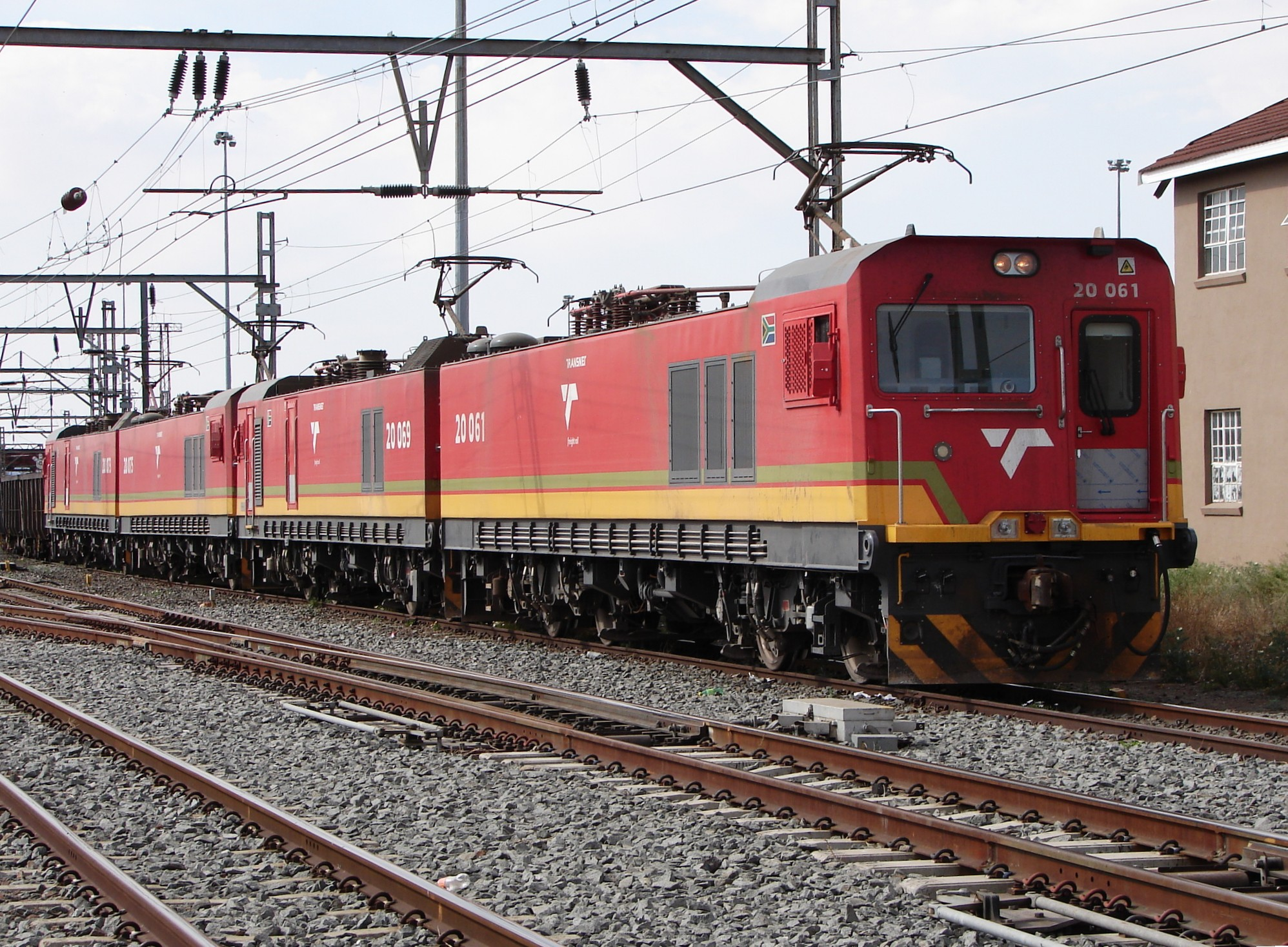 TFR Class 20E no. 20-061Location: De Aar, Northern Cape